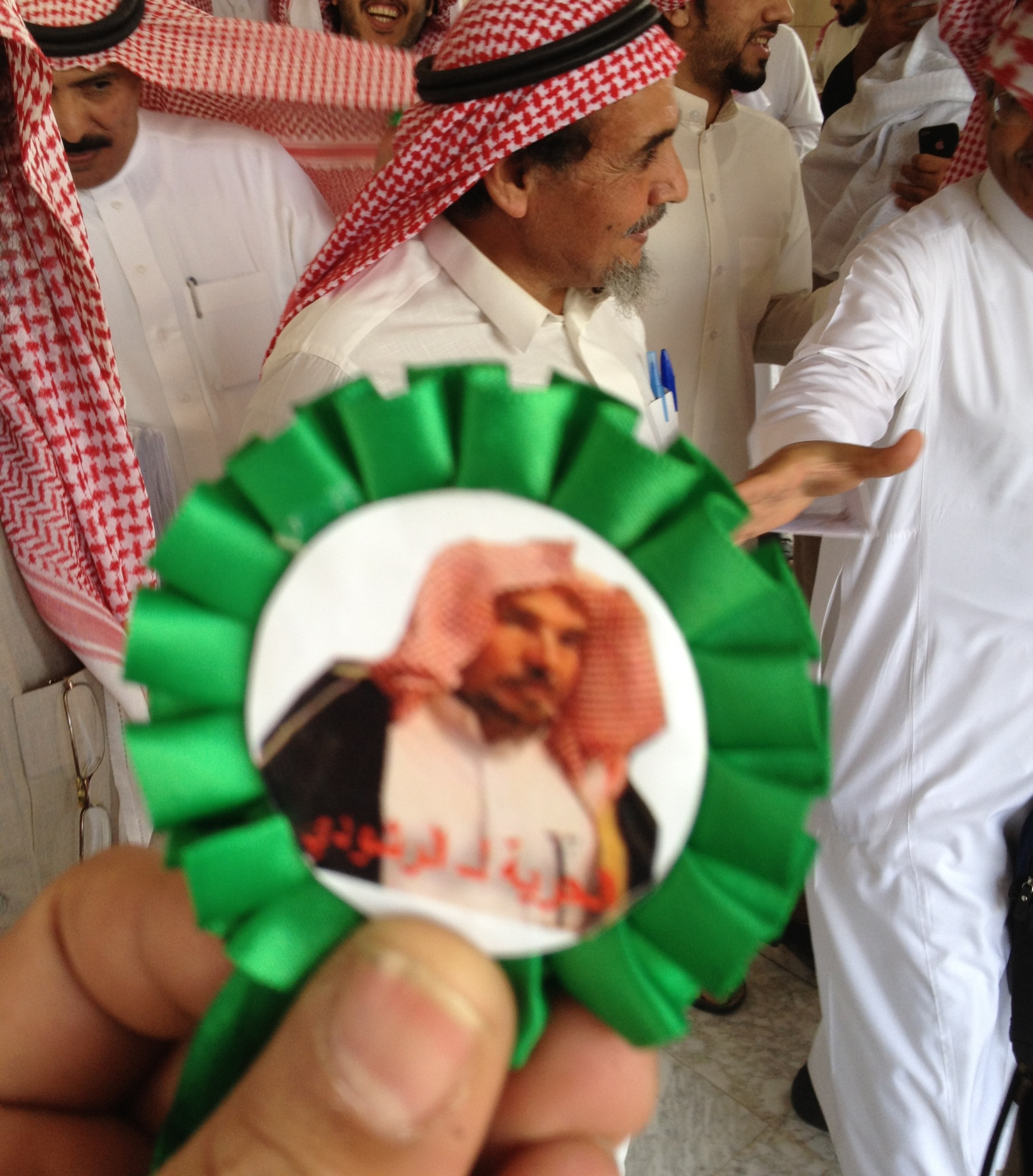 Abdullah al-Hamid after the ninth hearing session.